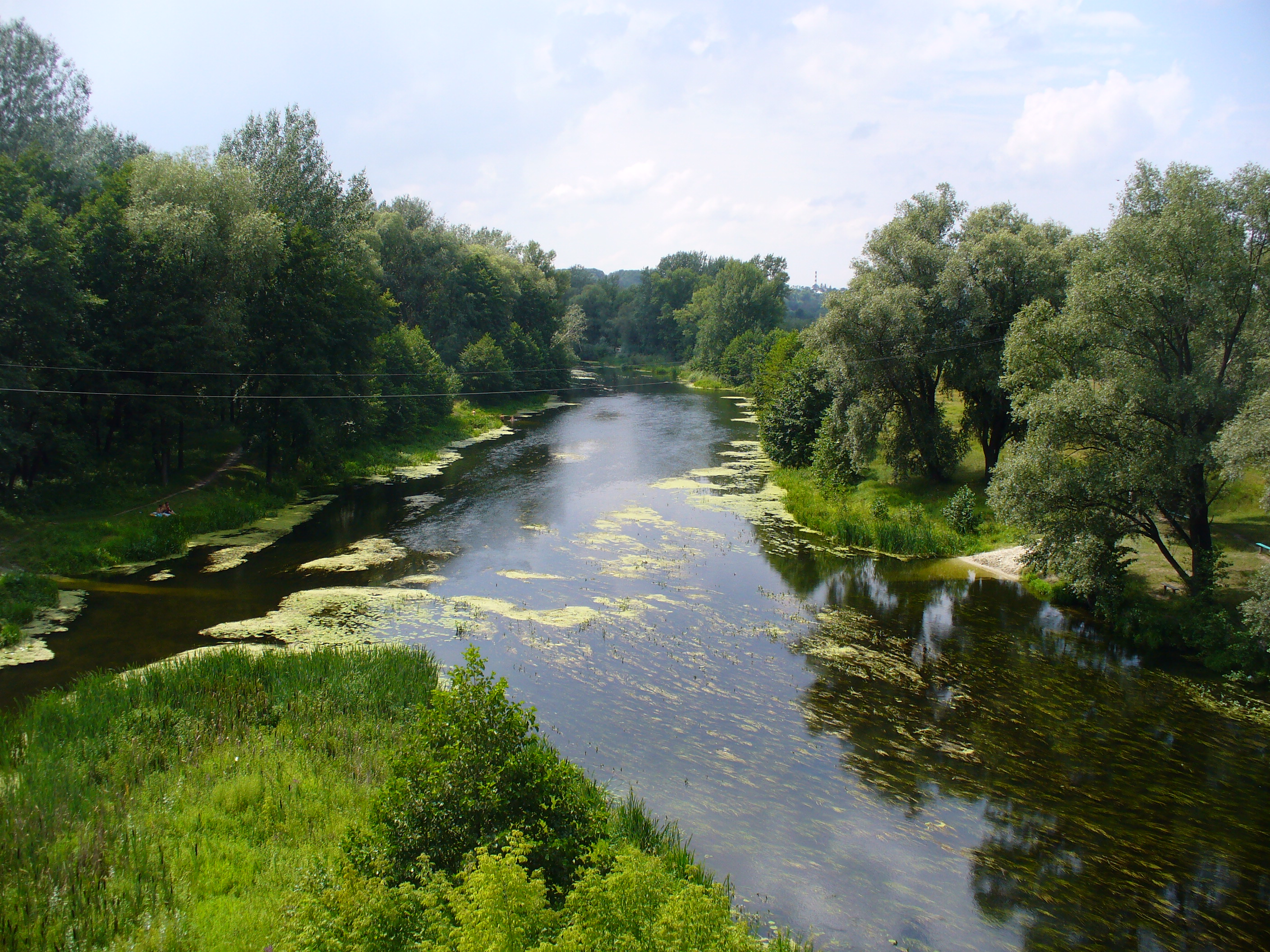 The photography of the Psel in Baranivka, a suburb of Sumy.